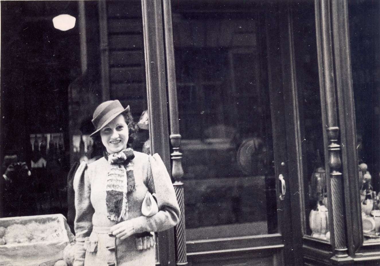 Bulgarian ballerina Feo Mustakova-Genadieva, Paris, 1933.